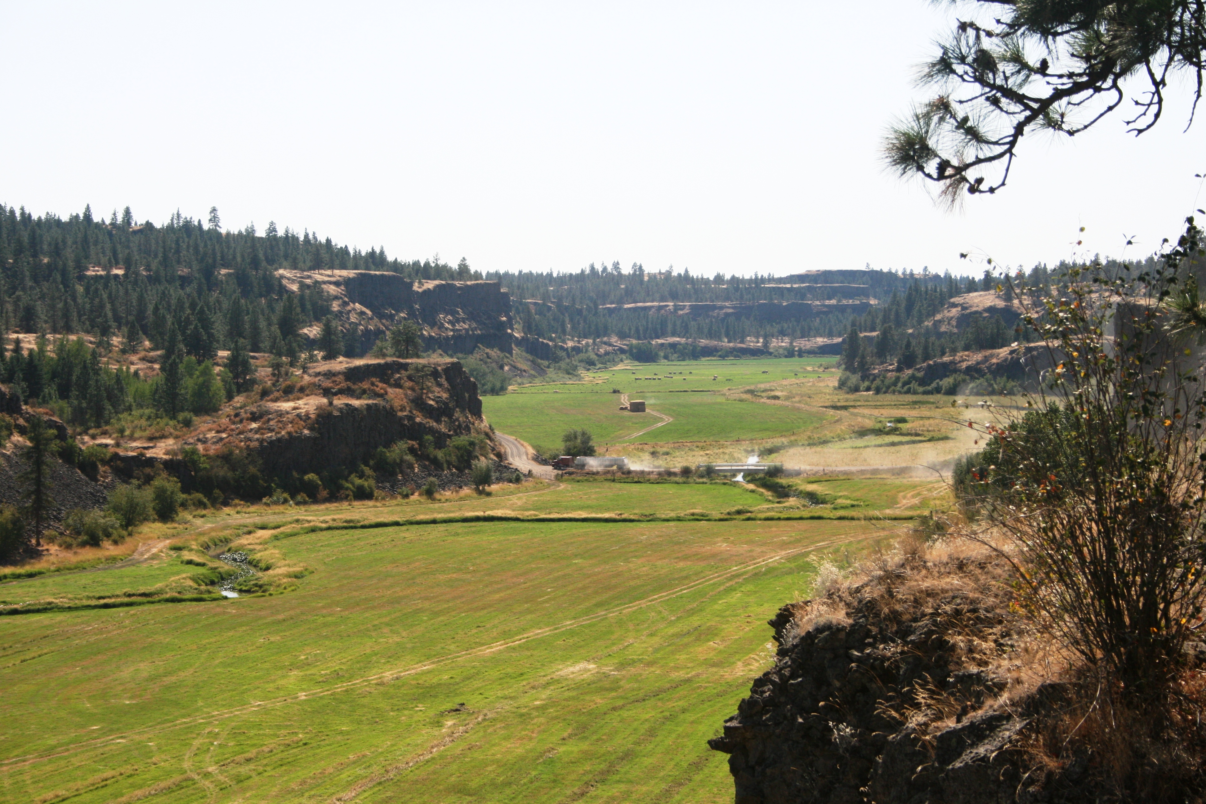 Hole in the Ground Coulee in Washington state. For use in the Columbia River Basalt Group article.